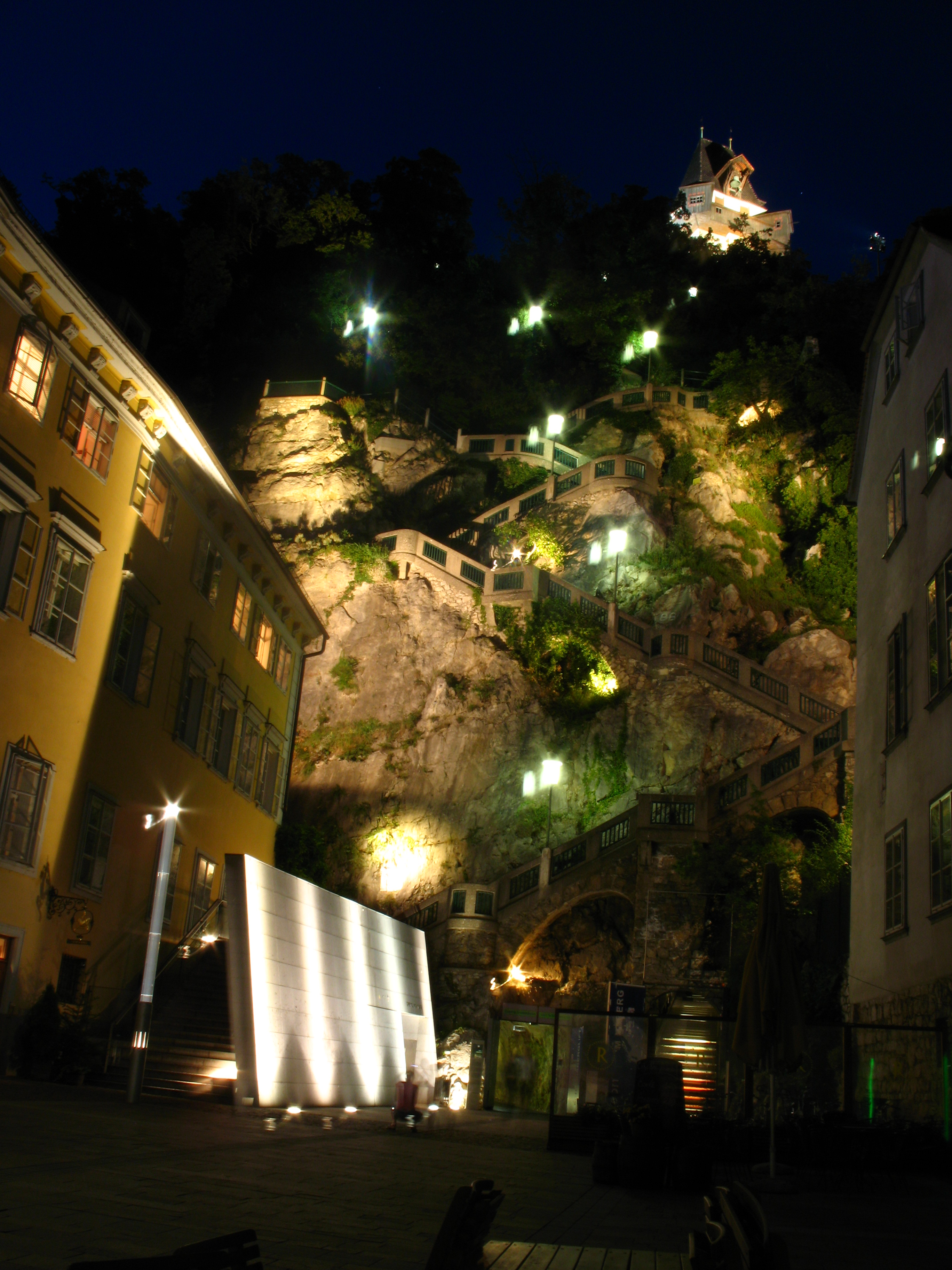 Castle Hill Plaza, Graz, Austria